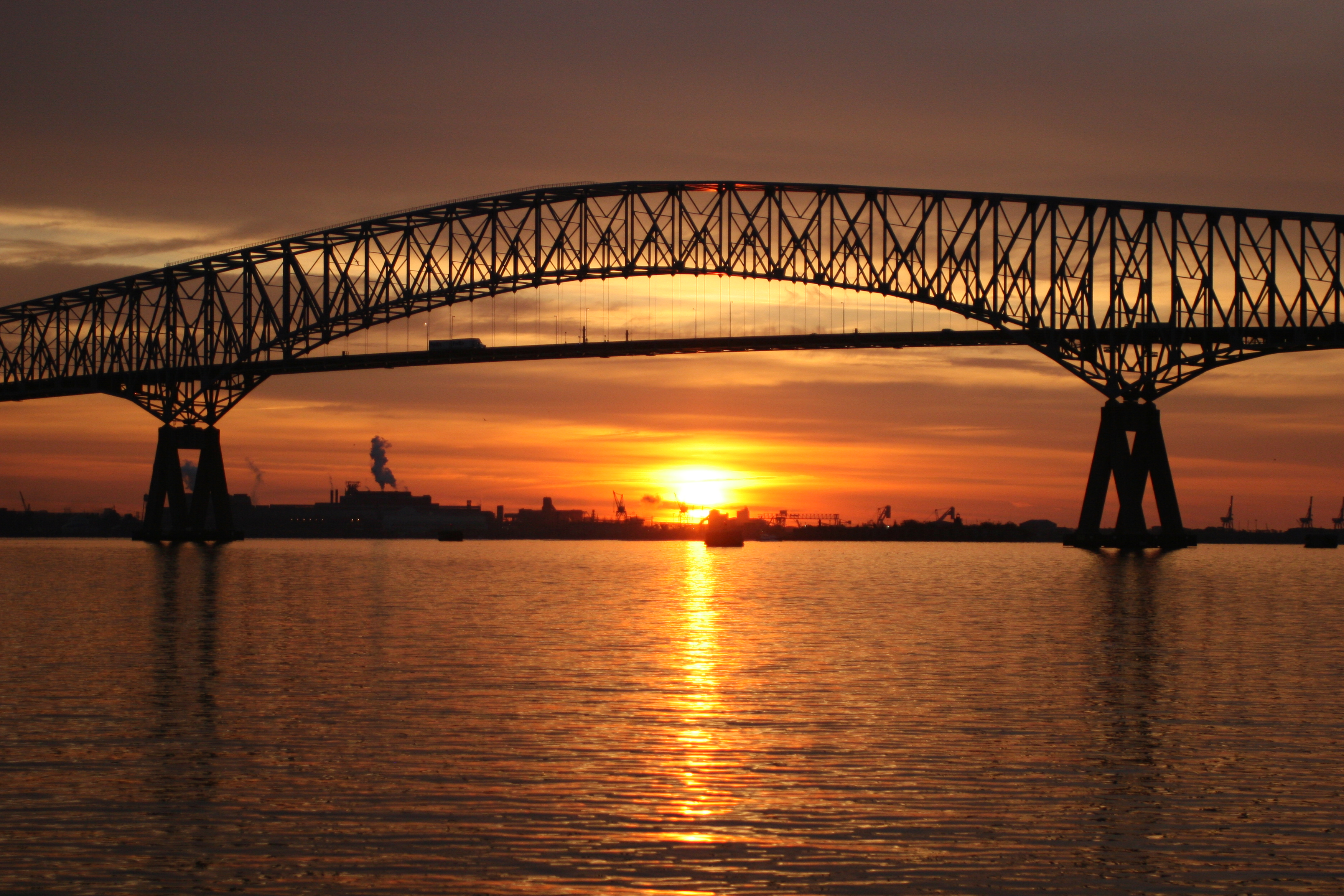 Francis Scott Key Bridge at Sunrise